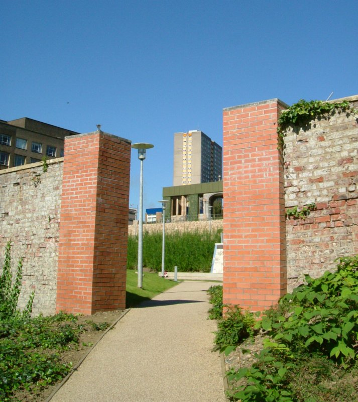 From Rottenrow Gardens on the University of Strathclyde Campus